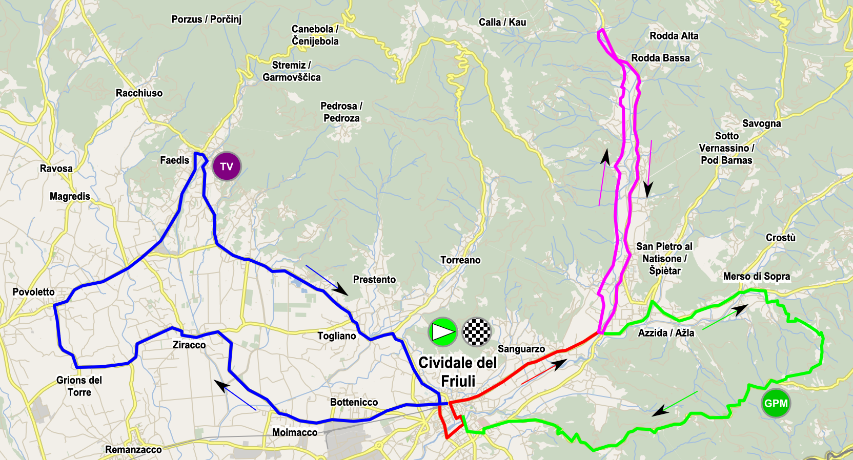 Map of stage 10 of Giro donne 2018.